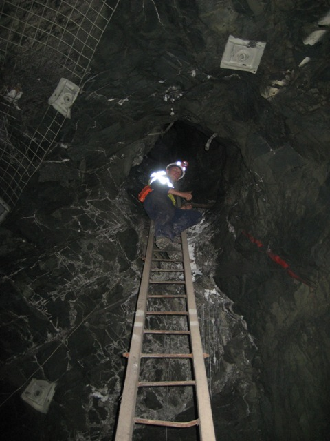 Employee at the Wiluna Gold Mine, using the ladderways of the emergency egress